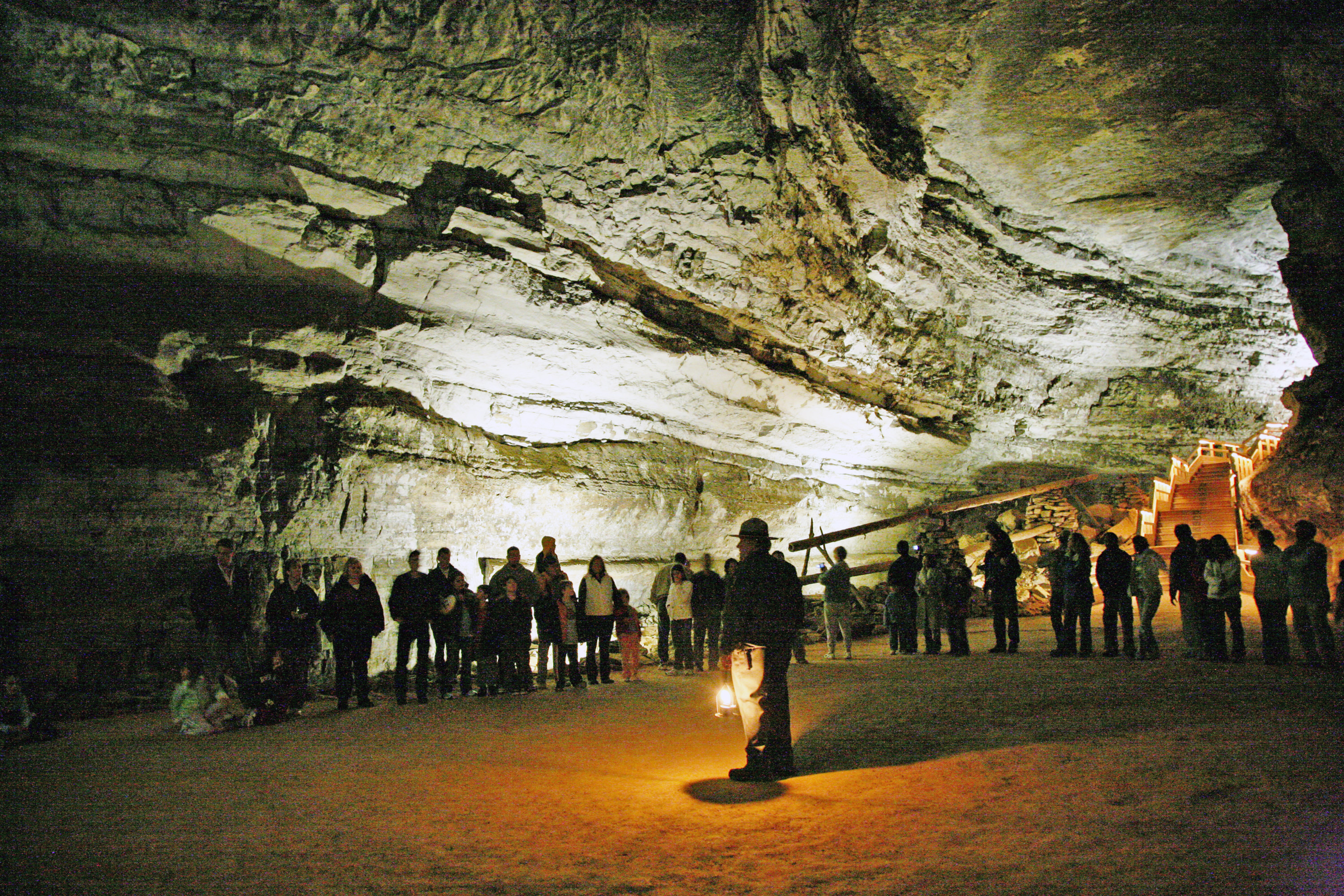 A national park ranger guiding tourists through Mammoth Cave.